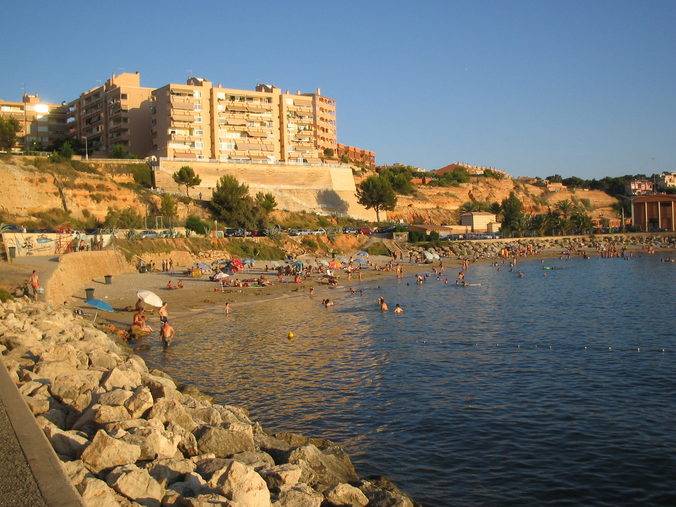 This is a nice and small beach from Calvià, Mallorca.